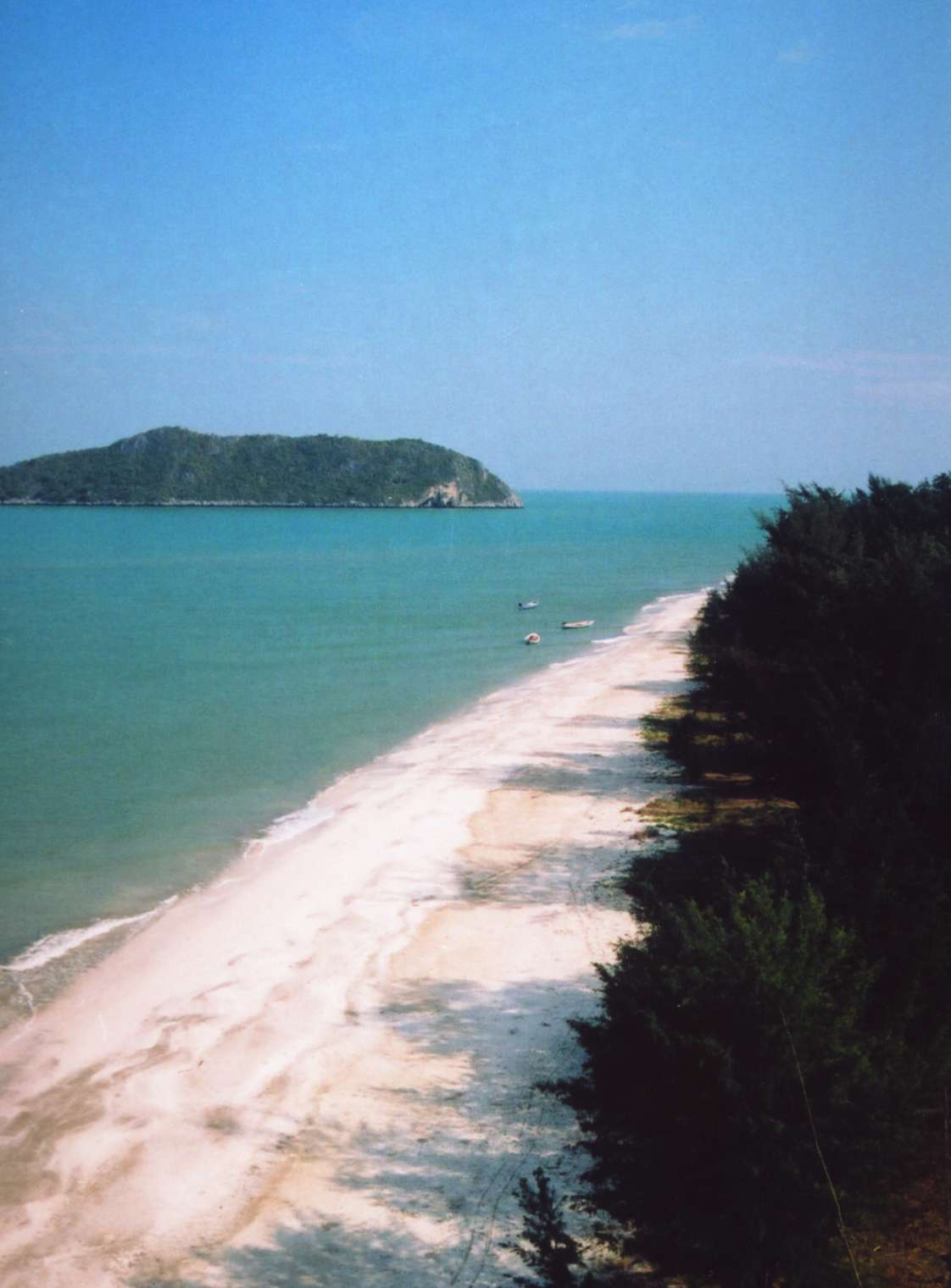 Hat Laem Sala, one of the beaches of the Khao Sam Roi Yod national park, Thailand. Photo taken by User:Ahoerstemeier on January 12 2005.